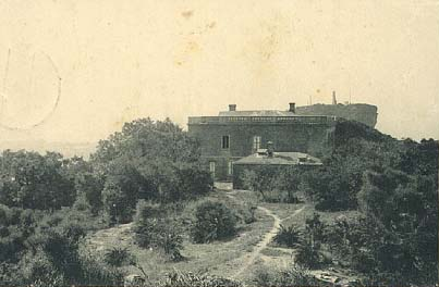 1910 the British consular residence at ShaoChuanTou, in Kaohsiung (Taiwan)